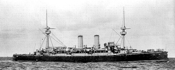 The Second Esmeralda - 1896 (actually the 4. for Chile)